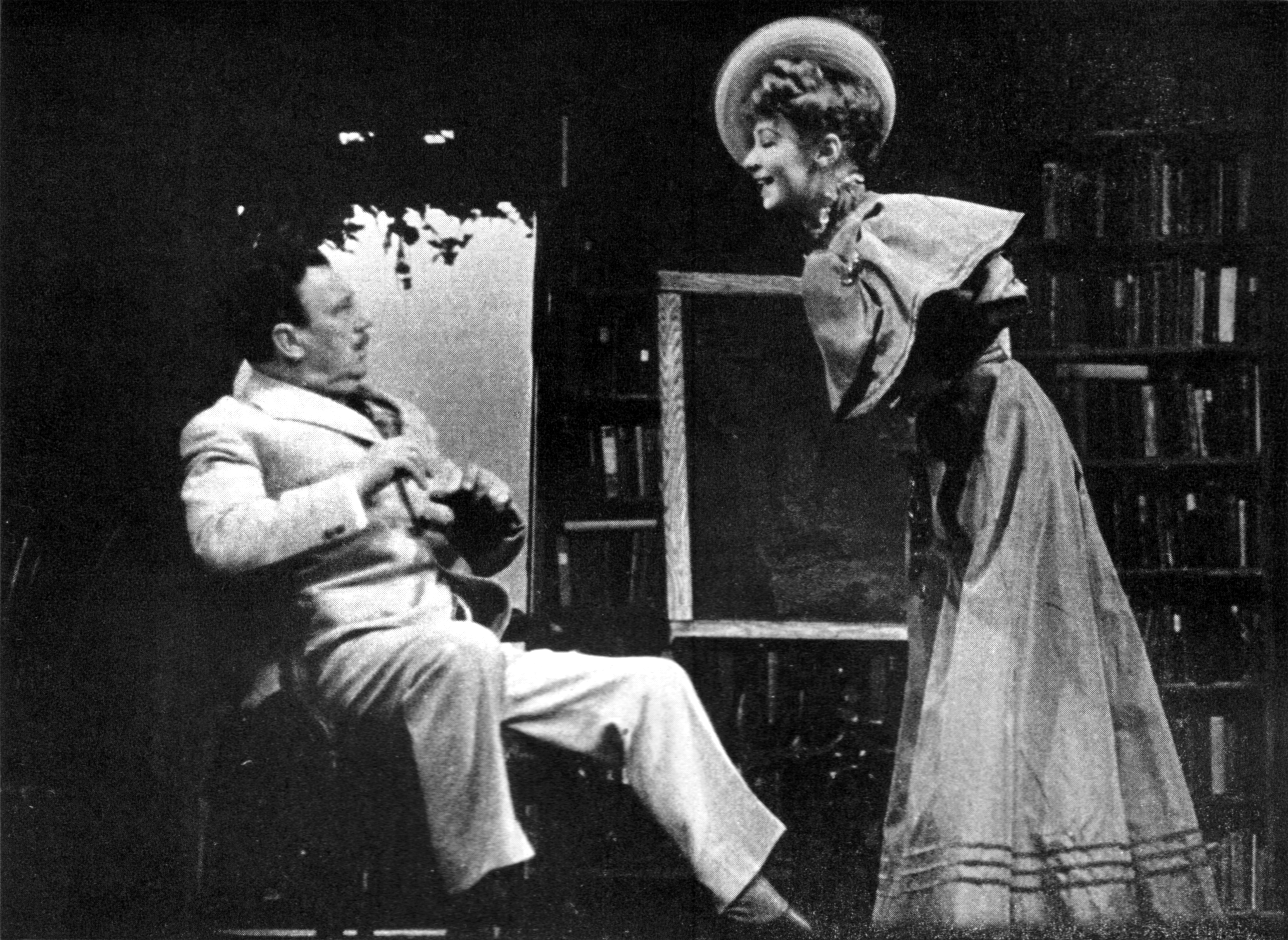 Promotional photograph of the Broadway production of Emlyn Williams' play The Corn Is Green Caption reads as follows:THELMA SCHNEE in The Corn Is GreenAnother beginner who reached the New York stage by way of training in college drama departments and apprenticeship in Summer Theatres, Thelma Schnee was given her first professional start two years ago … The role of Bessie Watty in the current Emlyn Williams success, starring Ethel Barrymore, is a part to delight an actress willing to play for characterization rather than mere charm. Miss Schnee's Bessie is as vulgar, adolescent and sensuous as she is meant to be. The young actress presents her ably and not without malice, underlining the essential amoral selfishness of the growing girl. In the last act, shown here, Bessie comes back to Miss Moffat's house, bringing her unwanted baby, flaunting her fine feathers and explaining to the squire, played by Edmond [sic] Breon, just how she intends to exploit an unhappy situation.